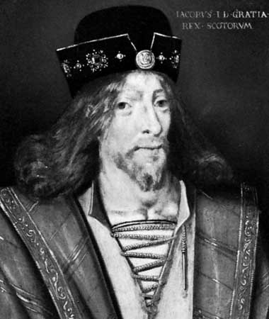 King of Scotland, James I, the Scottish National Portrait Gallery, Edinburgh